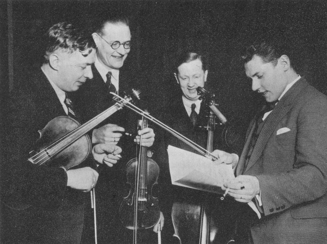 Photograph of the String Quartett of the Finnish Broadcasting Corporation. From left: Eero Koskimies, Hugo Huttunen, Tauno Korhonen, Erik Cronvall.